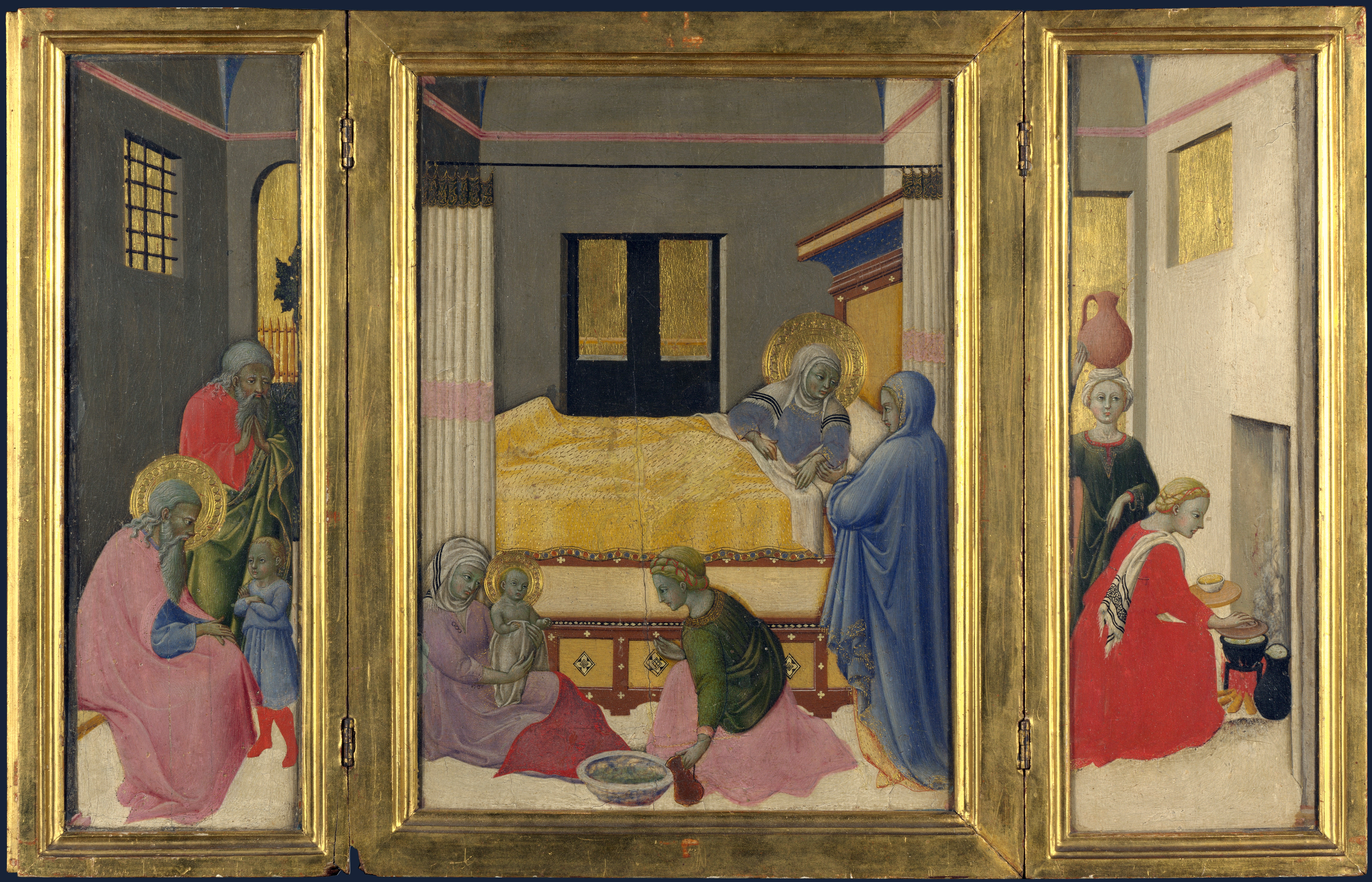 Osservanza Master. The Birth of the Virgin. ca. 1440, National Gallery, London.